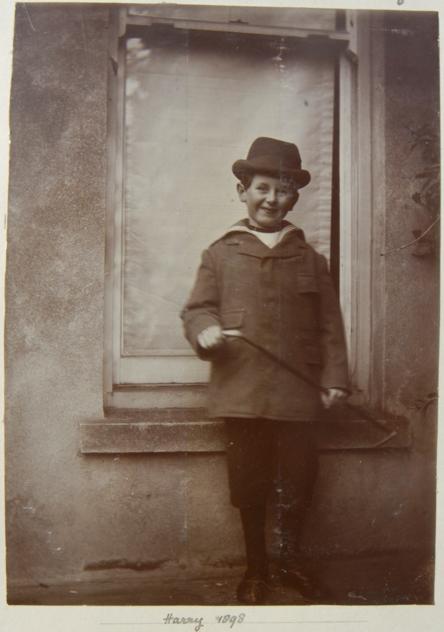 Photograph (by me, R. de Salis, Rodolph (talk) 07:27, 14 August 2015 (UTC)) of a photograph of Henry Edmund Challoner Fane de Salis, (eldest son of Cecil Fane De Salis), at Dawley Court, Hillingdon, Middlesex, in 1898.